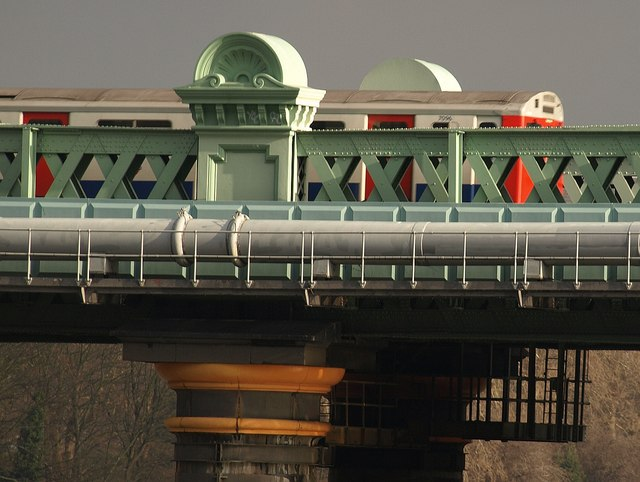 Train crossing Fulham Railway Bridge